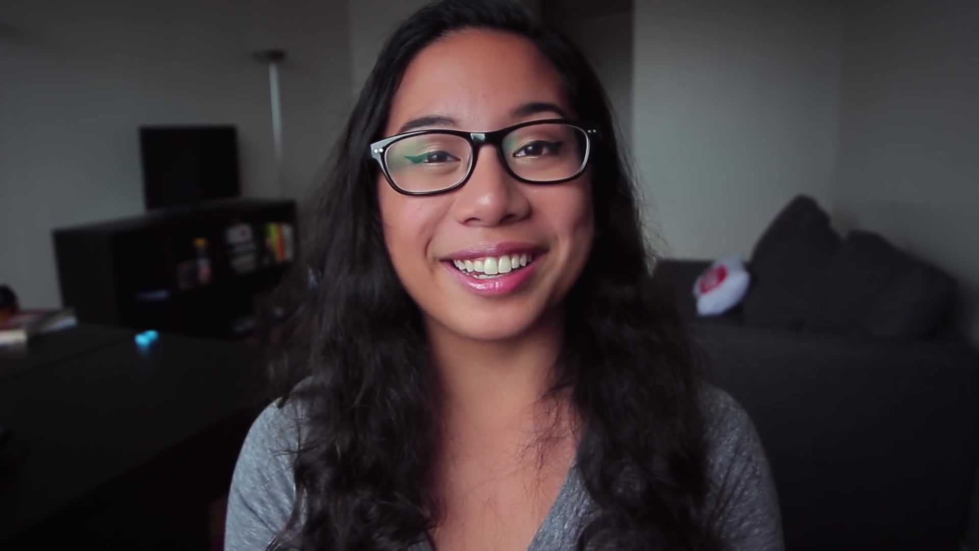 Sabrina Cruz